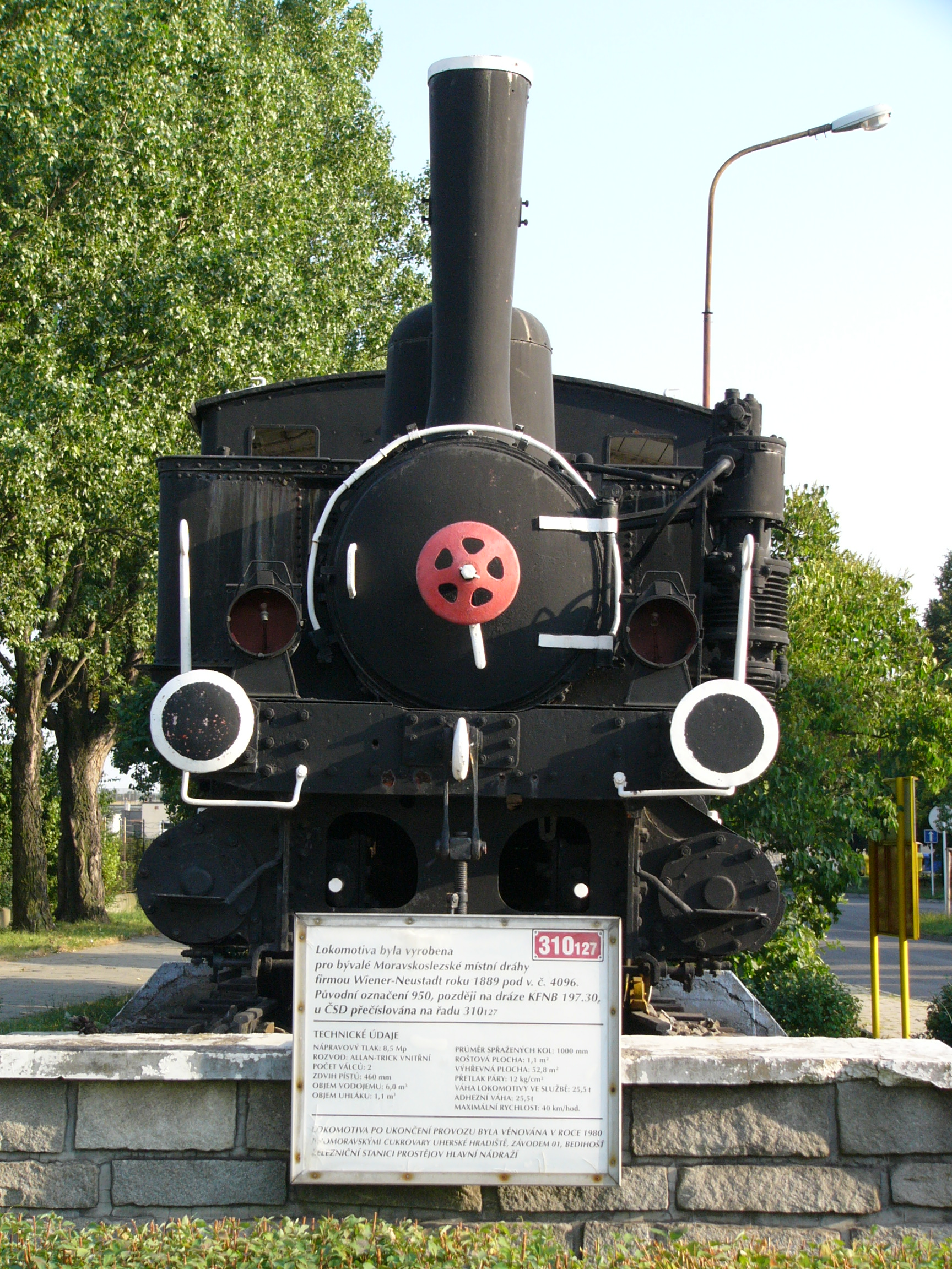 Steam locomotive 310.1 (310.127) in Prostějov (the Czech Republic).